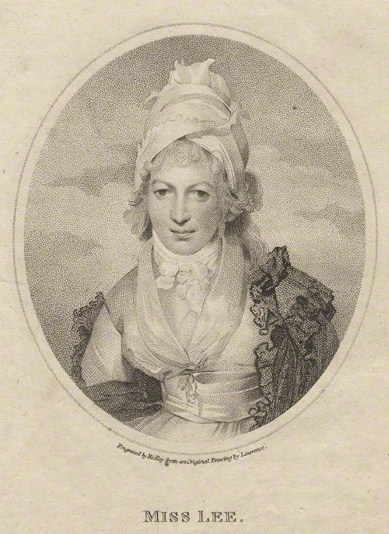 Portrait of Sophia Lee (1750–1824), English novelist and dramatist.